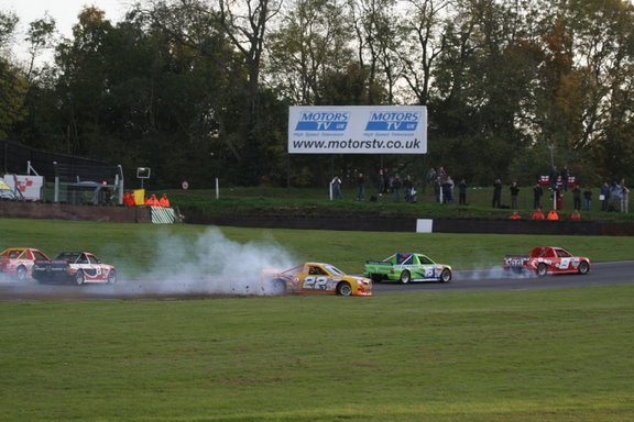 The final race of the 2007 Pickup Truck Racing season at Brands Hatch.